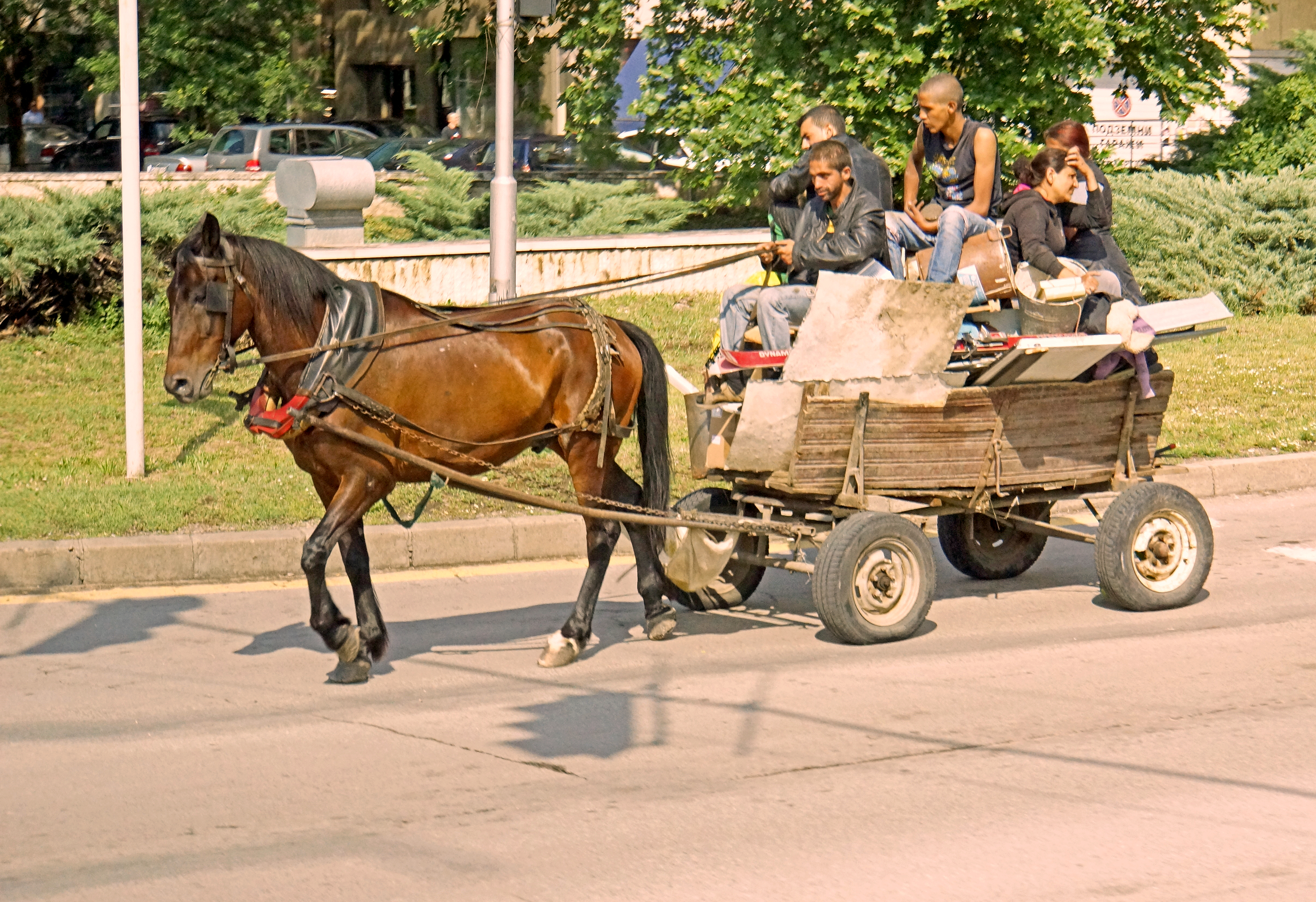 PLEASE,NO invitations or self promotion in your comments, THEY WILL BE DELETED. My photos are FREE for anyone to use, just give me credit and it would be nice if you let me know, thanks - NONE OF MY PICTURES ARE HDR. A common scene in Bulgaria and that part of the world. This was taken from the bus.